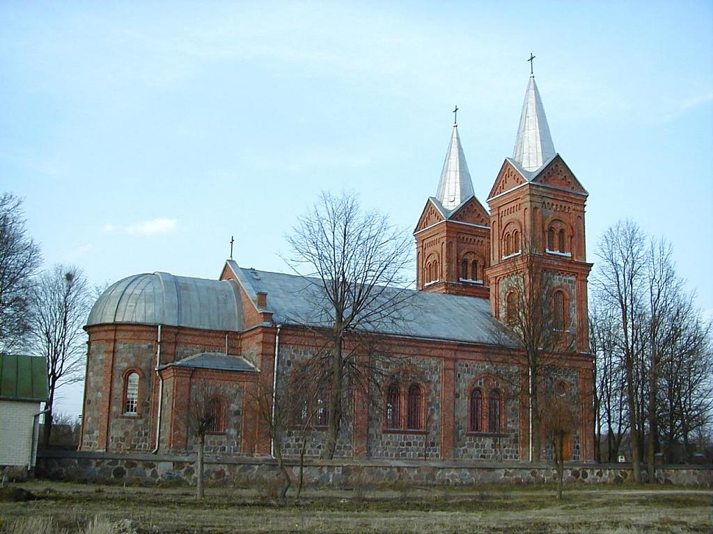 Stirniene Saint Lawrence Roman Catholic Church